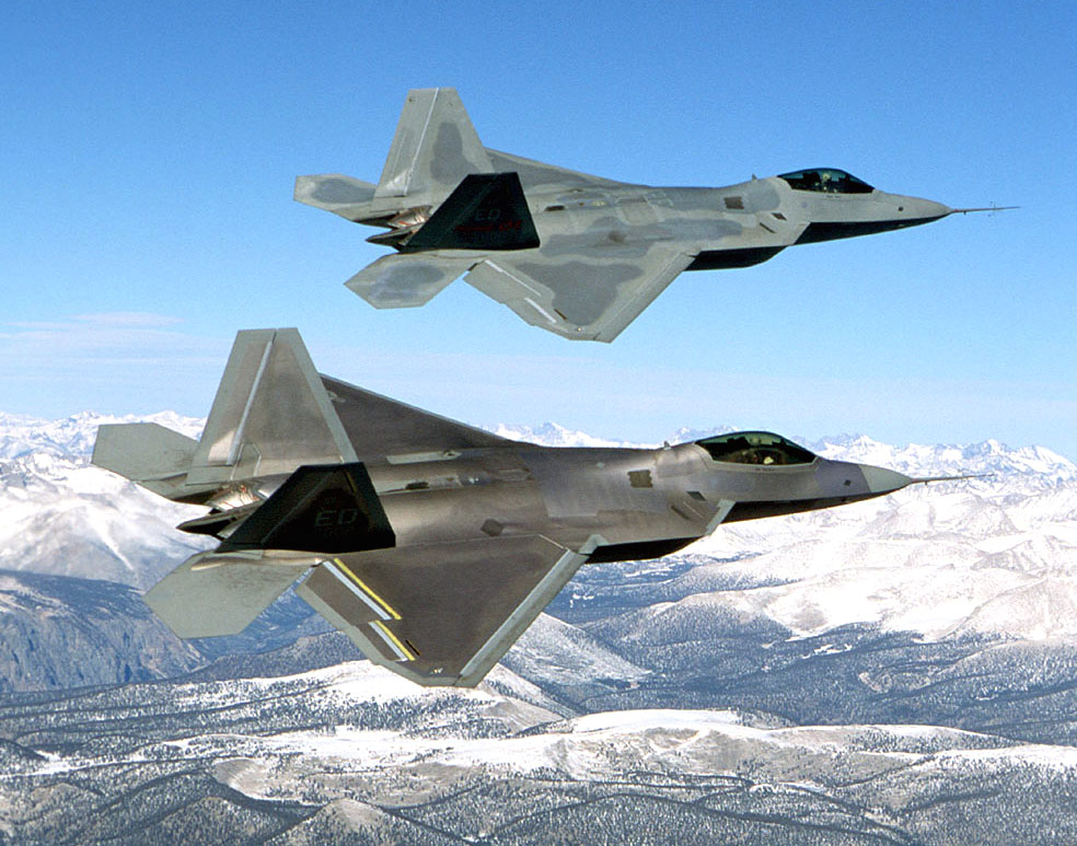 The F-22 is an air-superiority fighter with improved capability over current Air Force aircraft. From the inception of the battle, the F-22's primary objective will be to establish air superiority through the conduct of counter air operations. The F-22 also has an inherent air-to-surface capability. A combination of improved sensor capability, improved situational awareness, and improved weapons provides first-kill opportunity against the threat.